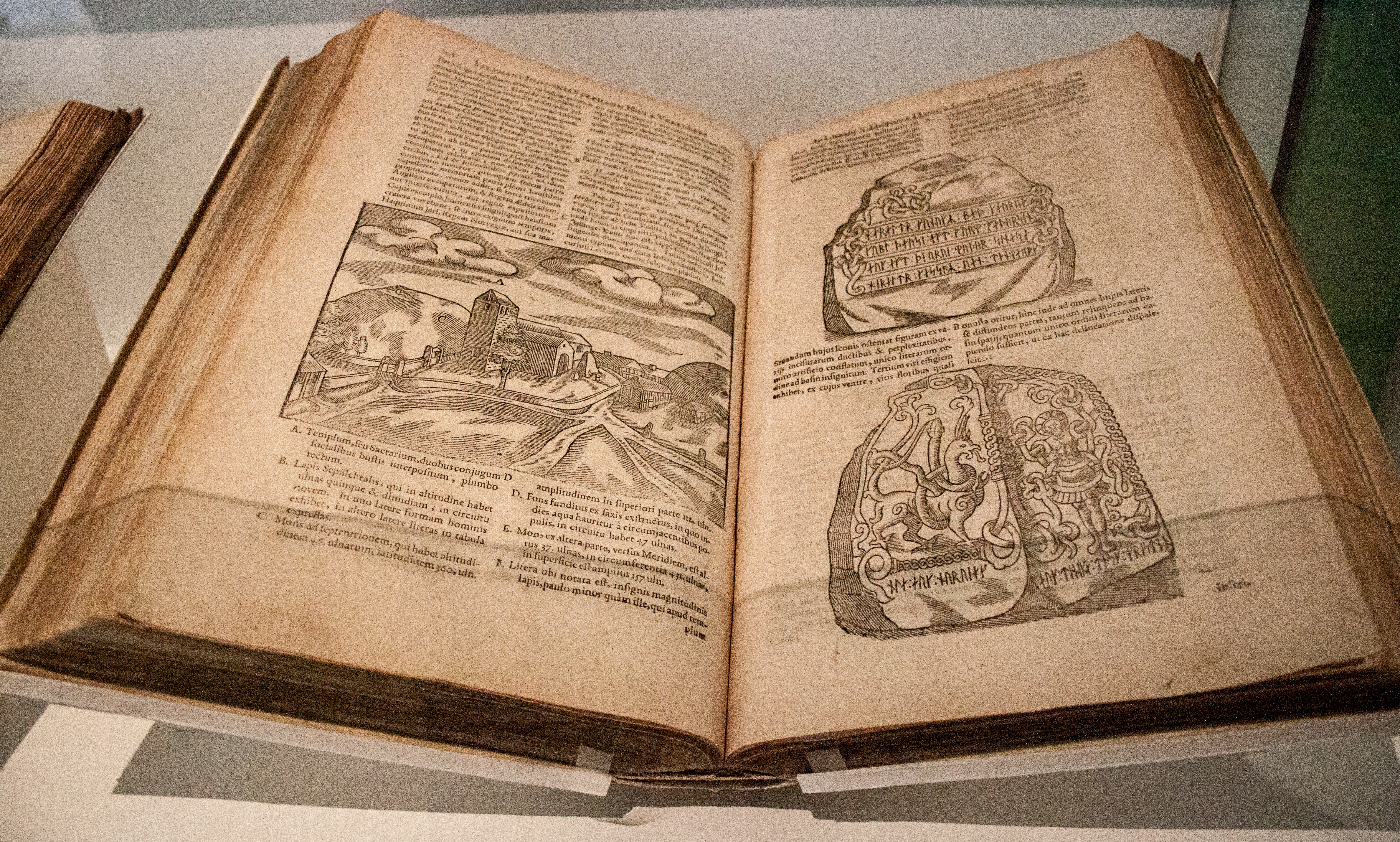 Saxo Grammaticus about Jelling, 1644 edition